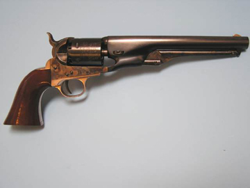 1861 Colt Navy Revolver, Second Generation, Right Side